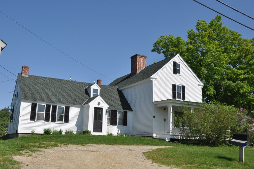 View of the Lamson Farm house in Mont Vernon, New Hampshire.